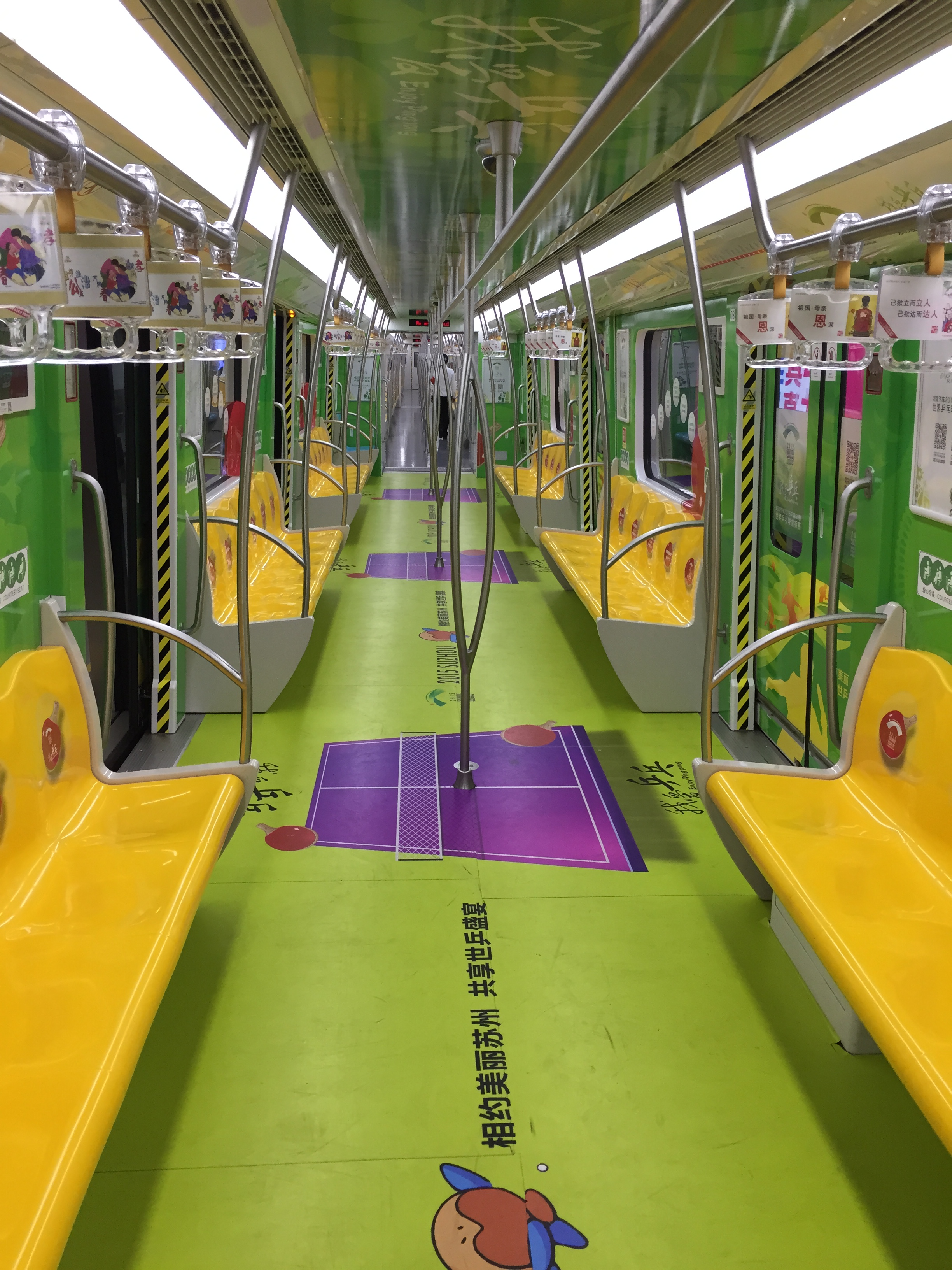 Suzhou Rail Transit (Line 2) special carriage